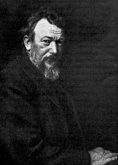 Adolf Stäbli (1842–1901) Maler